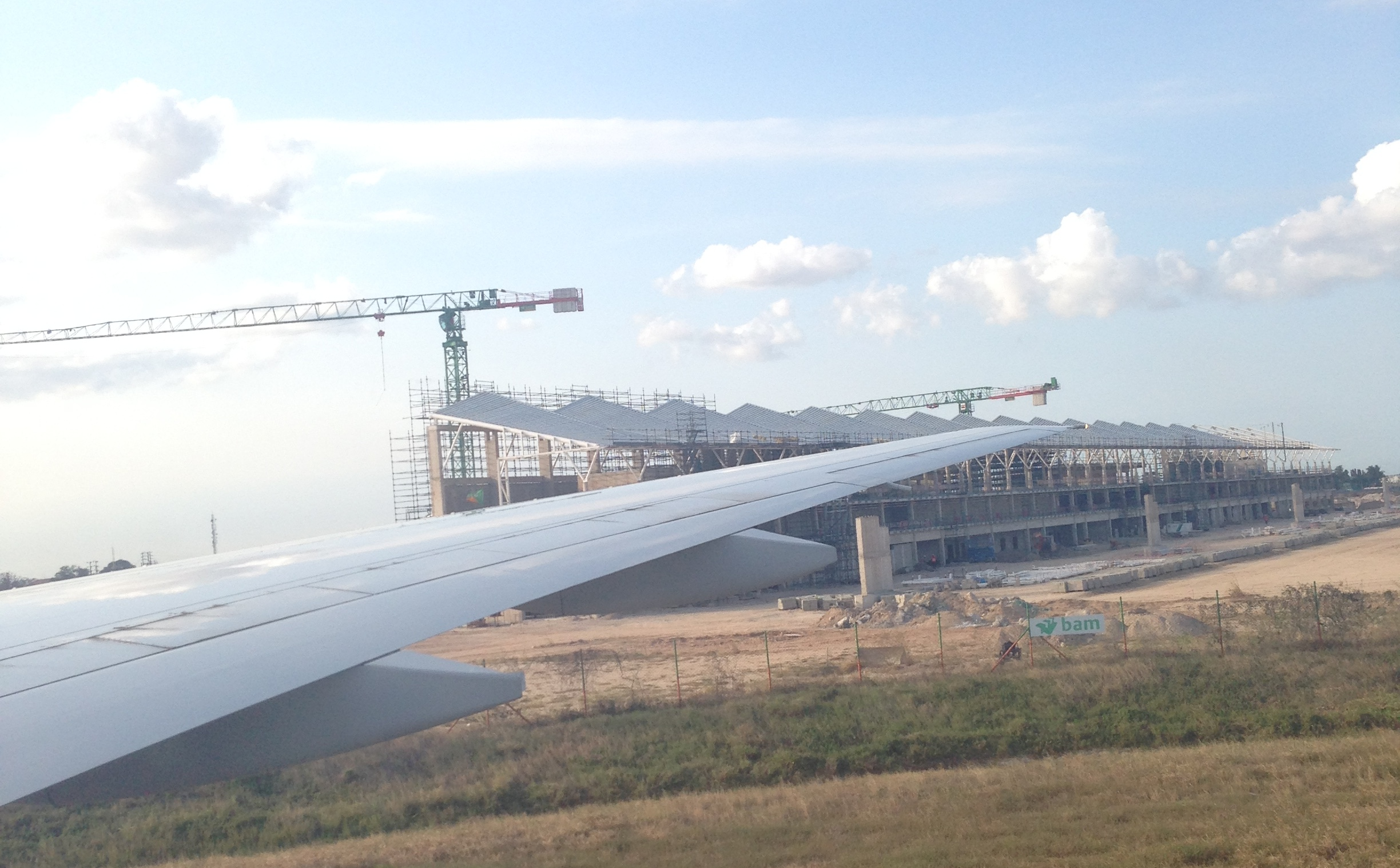 JNIA Terminal III under construction.